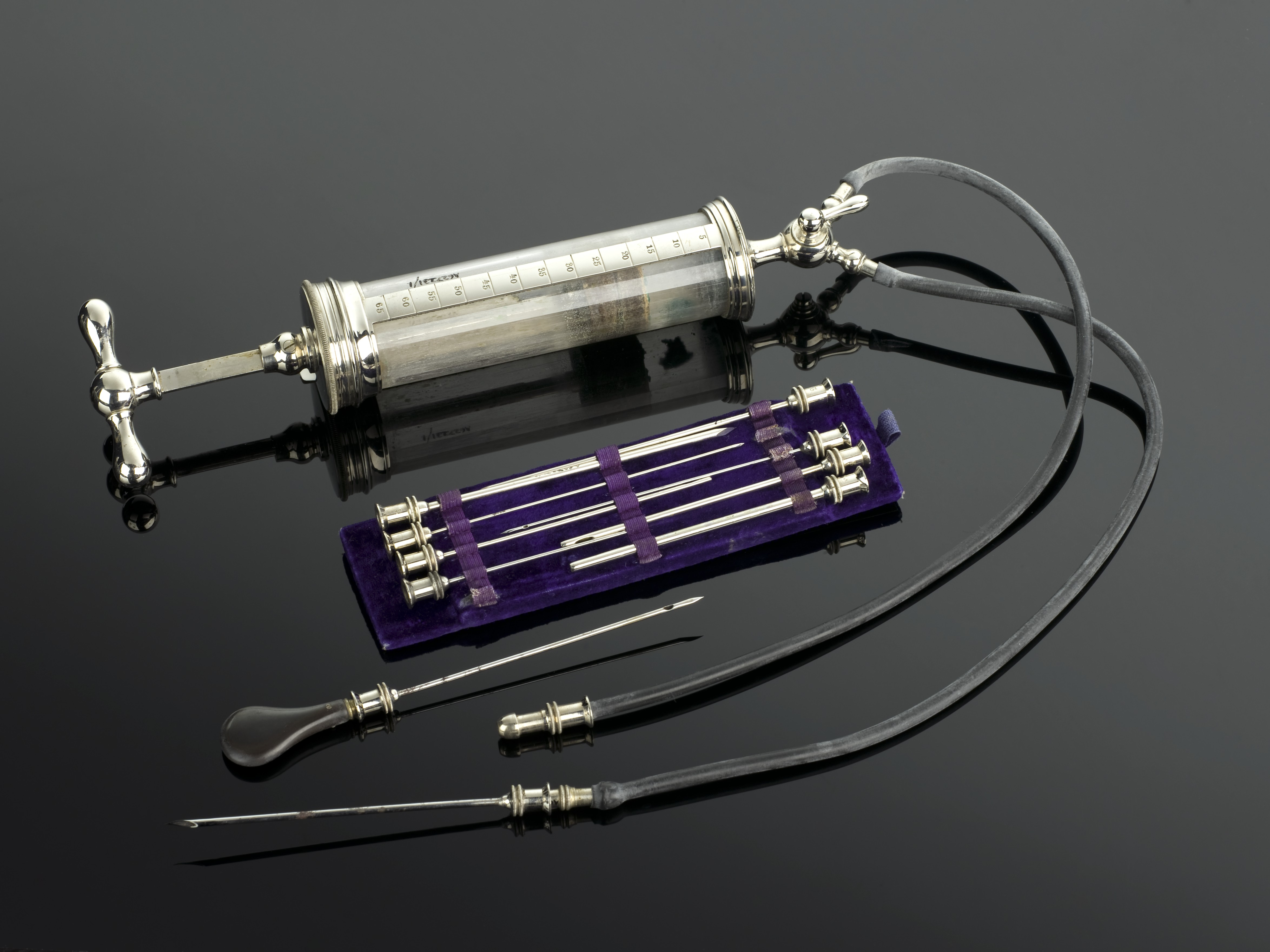 Aspirators were used to draw out and remove substances from the body such as mucus, serum and infections. A trocar is inserted into the body, allowing a cannula, a tube used for drainage, to be inserted. The cannula is attached to the screw-operated piston by rubber tubes. The handle of the pump is then pulled up, sucking out the substances. This kit comes with three trocars, three cannulae and four aspirating needles, all different sizes for various parts of the body. However, aspirators declined in use with the rise of aseptic surgical techniques. Georges Dieulafoy (1839-1911), a French physician and pathologist, invented this type of aspirator in 1869. maker: Unknown maker Place made: England, United Kingdom Wellcome Images Keywords: aseptic; trocar; Catheters; aspirator; aspirating needle; cannula